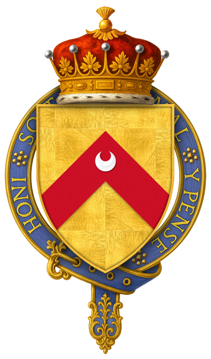 Sir John Stafford, 1st Earl of Wiltshire, KG BURKE, Sir Bernard, The General Armory of England, Scotland, Ireland, and Wales; Comprising a Registry of Armorial Bearings from the Earliest to the Present Time, London: Harrison & Sons, 1884. “ Stafford (Earl of Wiltshire, extinct 1523; Lord John Stafford, youngest son of Humphry, first Duke of Buckingham, was so created 1470…). Same Arms, &c., as the Duke of Buckingham [viz. Or, a chev. gu.] ”